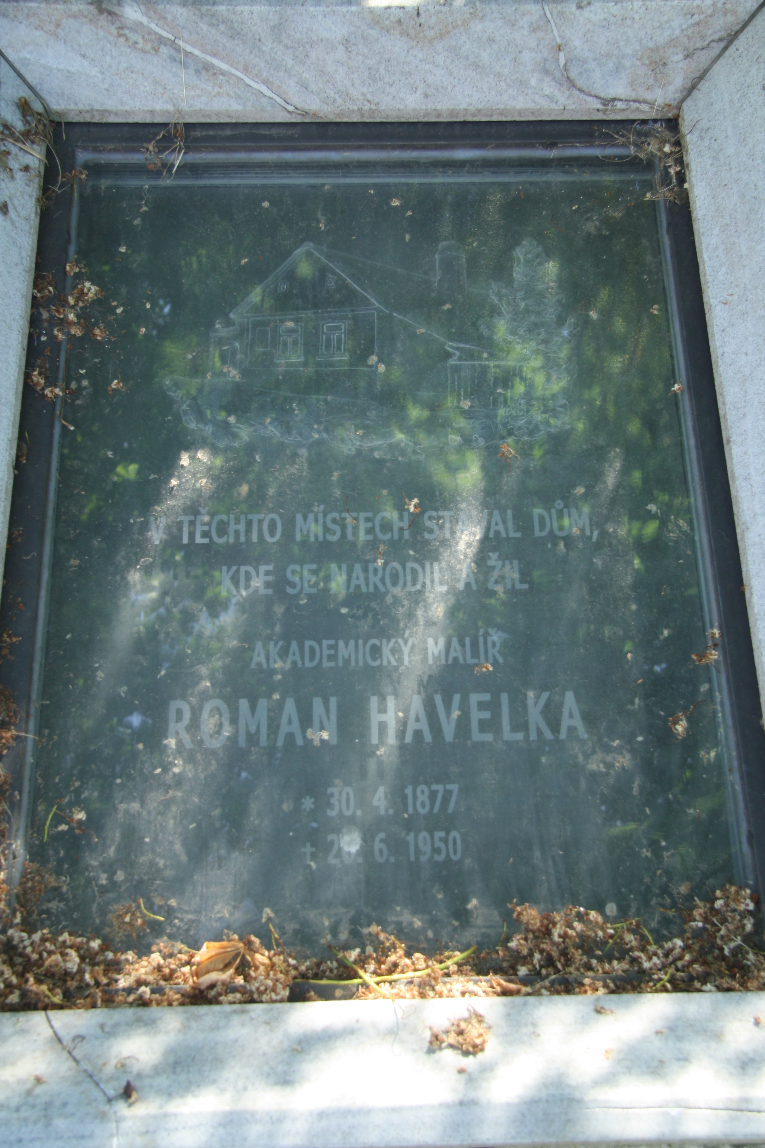 Plaque of Roman Havelka in Jemnice, Třebíč District.